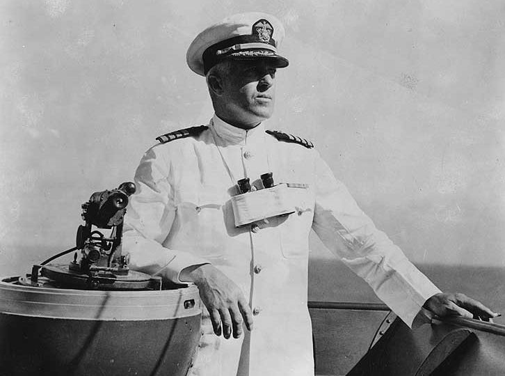 As Captain Daniel Judson Callaghan on the bridge of his flagship USS San Francisco (CA-38), circa 1941-1942.